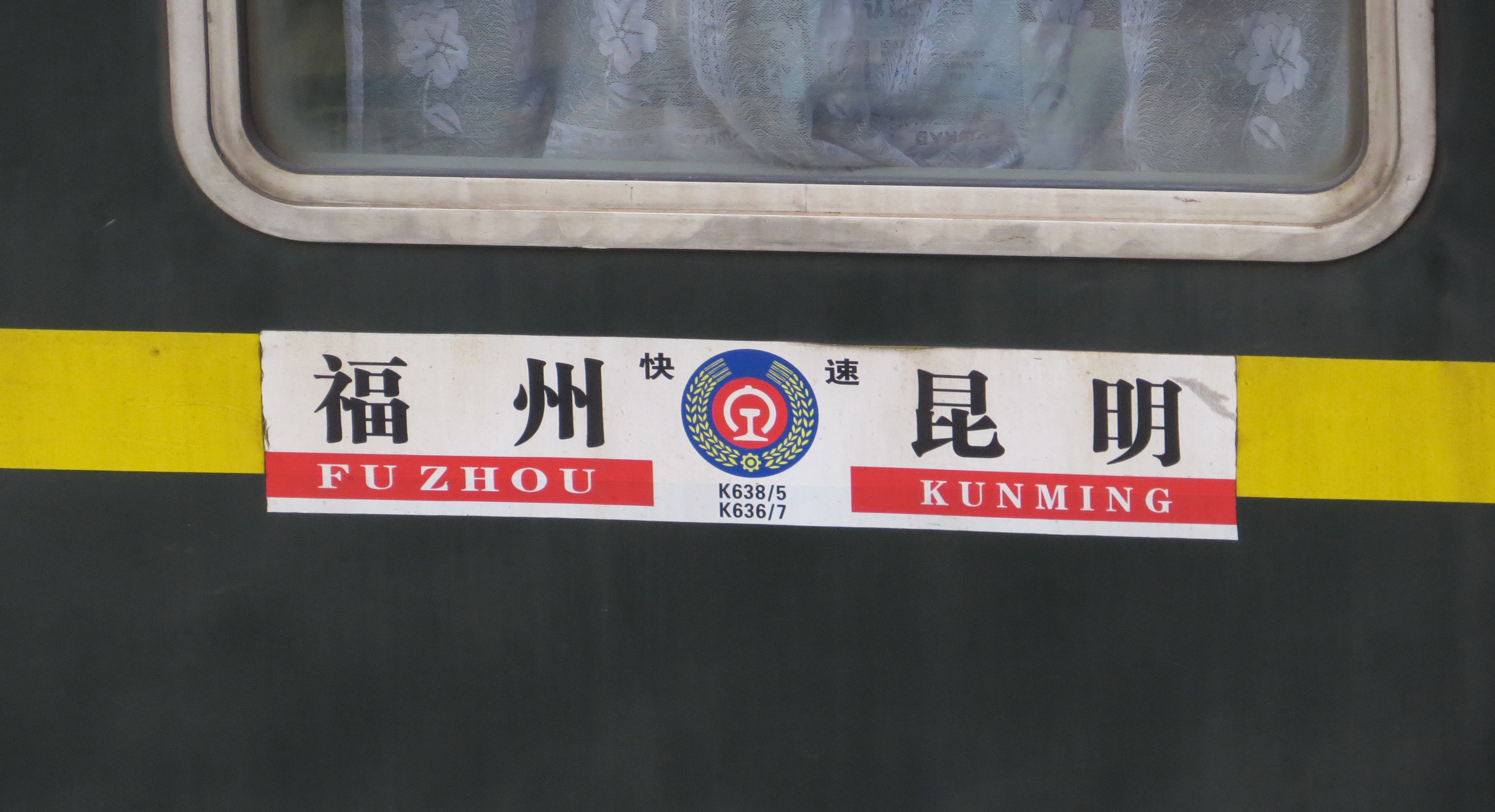 Fuzhou to Kunming via a southern route.